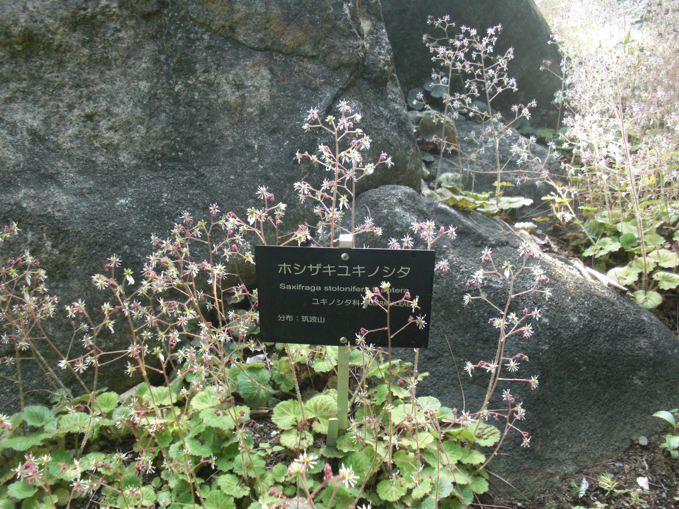 These are Saxifraga stolonifera Curtis f. aptera (Makino) H. Hara at Tsukuba Botanical Garden in Japan.